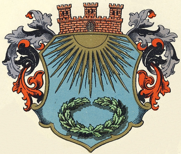 COA Dobrilugk 1900